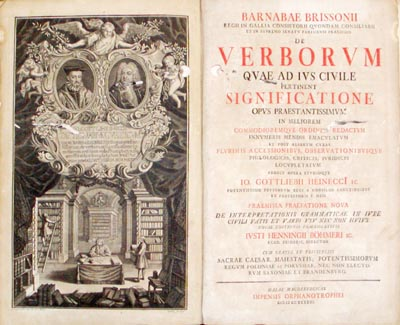 Frontispiece of DE VERBORUM QUAE AD JUS CIVILE PERTINENT SIGNIFICATIONE (1743) by Barnabé Brisson.